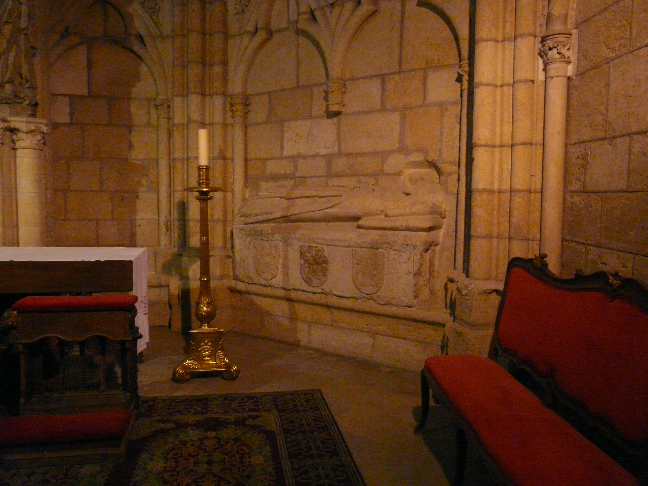 Sepulcher of Alfonso of Valencia († 1316), son of the infante John of Castile and grandson of the king Alfonso X of Castile. Cathedral of León, province of León (Spain).